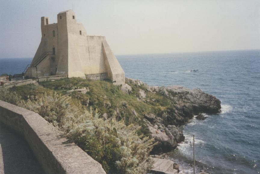 Truglia Tower